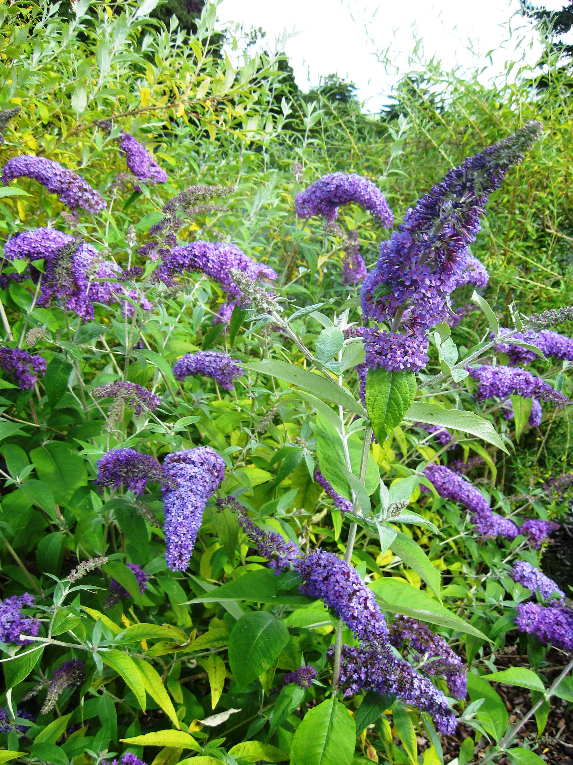 Photo of Buddleja davidii cultivar 'Dart's Purple Rain' taken at Longstock Park, UK